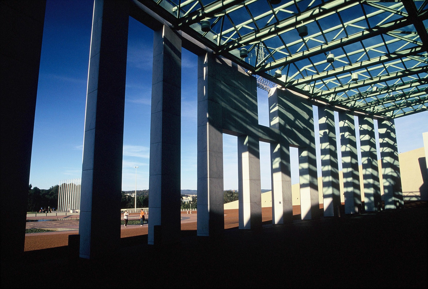 Main entrance of Parliament House, Canberra